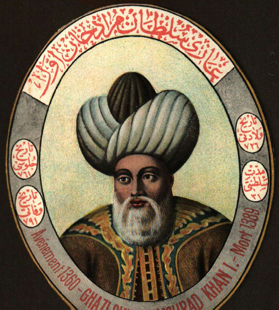 Murad I